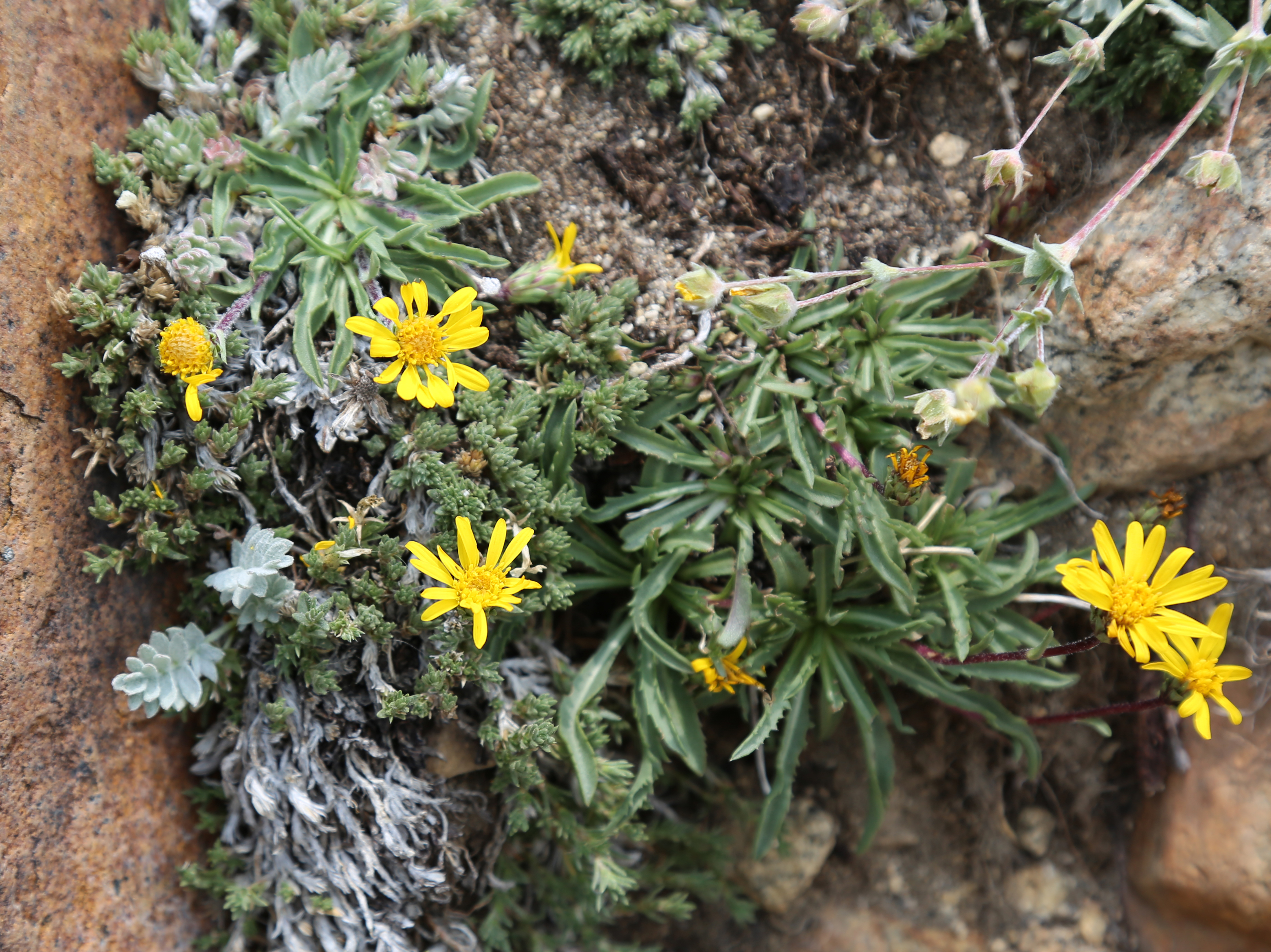 Golden-aster (Pyrrocoma apargioides), showing rich golden-yellow flowerheads, notched green leaves, red stems, and thick phyllaries on bud at top center. At 11,000ft on the edge of the Dana Plateau near Tioga Pass, in the Ansel Adams Wilderness, Sierra Nevada mountains USA.